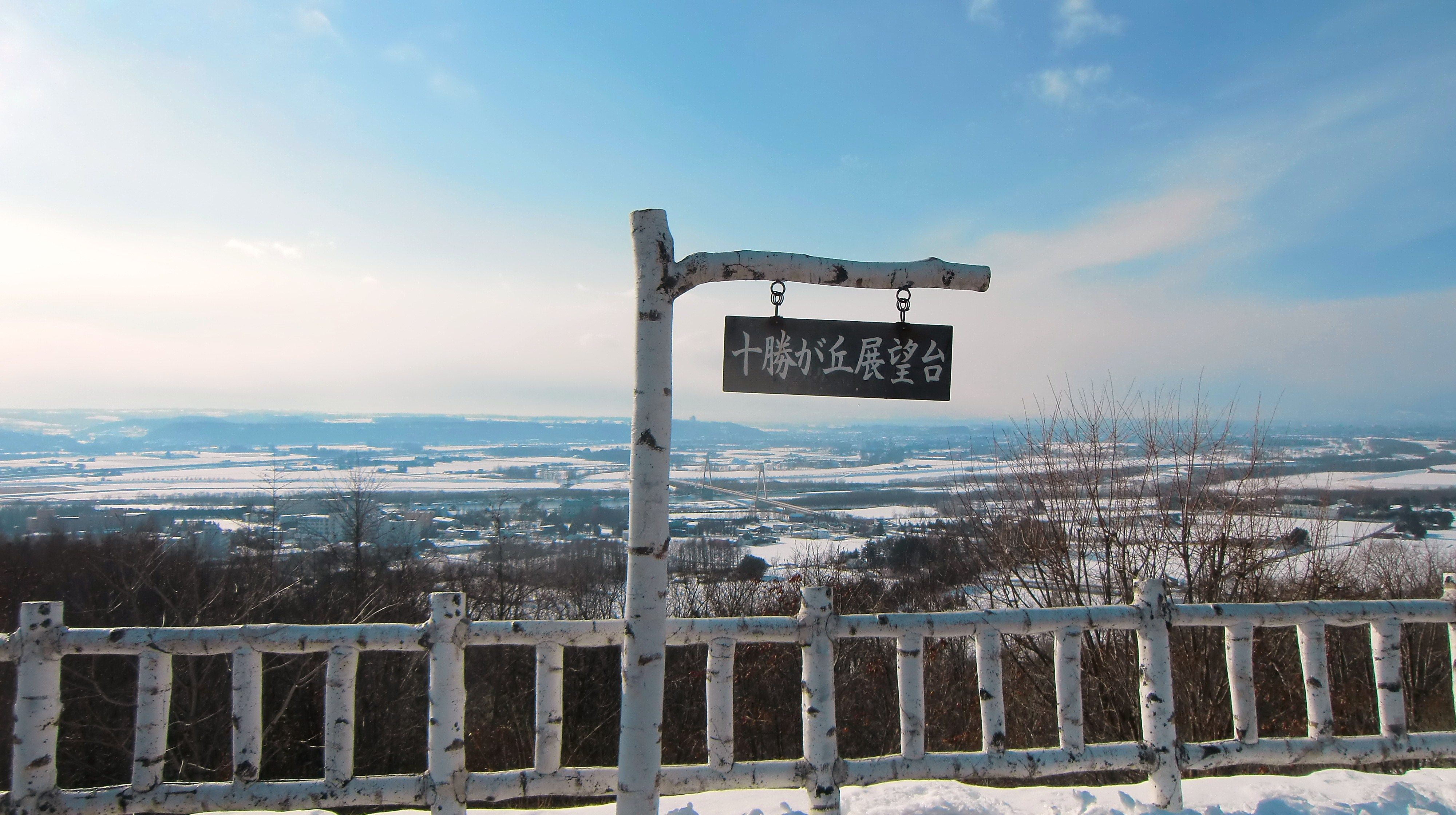 View from Tokachi-gaoka, Tokachigawa-Onsen, Otofuke town, Kato county, Hokkaido, Japan.